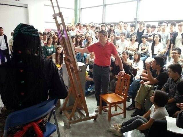 Masterclass at the China Art University